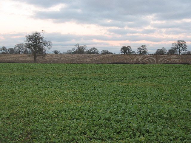 Winter crops by Cooksmere Lane Arable farmland only just out of the built-up area of Sandbach. The crop may be beet, but I am not sure.